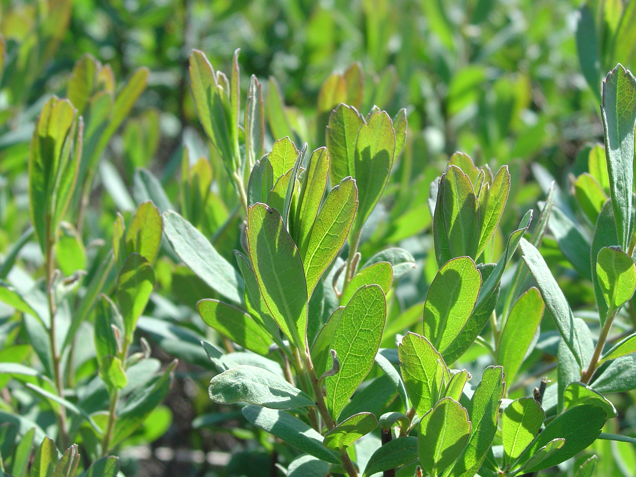 Myrica gale foliage, Anchorage area, Alaska